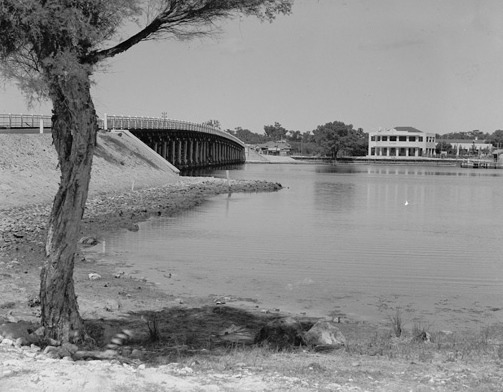 Canning Bridge and the Raffles Hotel in Perth, Western Australia, around 1939.